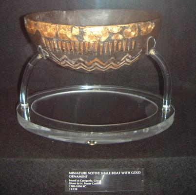 Cawg Caergwrle ( Caergwrle Bowl ) Perhaps the most extraordinary piece of gold work from Wales is known as the Caergwrle Bowl. It may be 12-11th century BC date or later. The 'bowl' is made of shale with a design deeply cut into it. Originally all elements in the design were filled with tin over which was placed decorated gold foil. The decoration has been interpreted as forming the gunwales, oars and keel of a boat with waves running along its hull. This beautiful gold-foil decorated shale bowl (c.18cm across the rim), found in a bog at the foot of Caergwrle Castle Hill appears to be a rare representation of a prehistoric boat. Now you will find the Caergwrle Bowl in a museum in Cardiff.